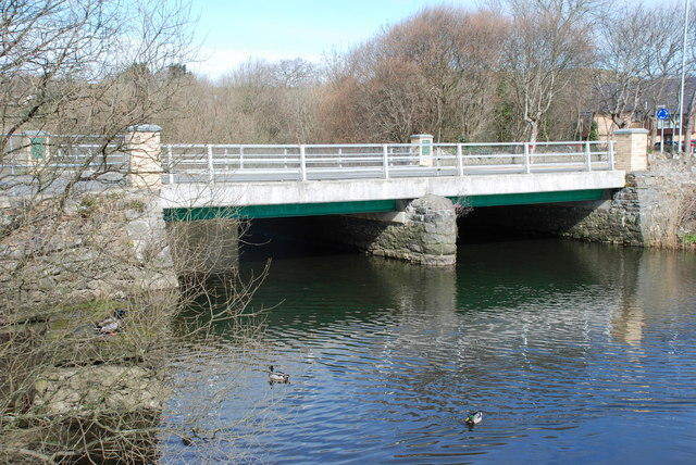 Pont Solomon Pwllheli The original bridge was built in the 1890's by Solomon Andrews to carry his Pwllheli and Llanbedrog horse-drawn tramway across Afon Cymerau, where Afon Rhydhir and Afon Penrhos flow into Pwllheli harbour.